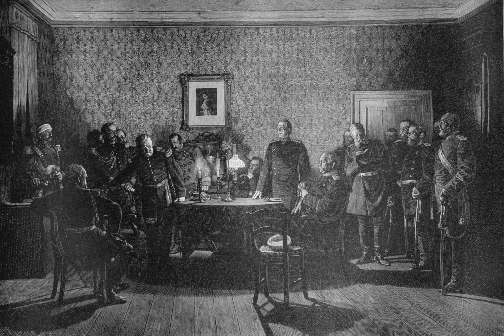 A depiction of the talks in the village of Donchery, Ardennes, France, on 2 September 1870, hours after the French Army of Châlons had run up a white flag over Sedan. Members of the French delegation pictured on the left: Supreme Commander Emmanuel Félix de Wimpffen (just standing up), General Auguste-Alexandre Ducrot, and other officers. Members of the delegation from the Prussian Coalition pictured on the right: Supreme Commander Helmuth von Moltke the Elder (standing at the table), Otto von Bismarck (sitting to Moltke's left), General Field Marshall Leonhard Graf von Blumenthal, General Field Marshall Alexander August Wilhelm von Pape, commanders of the 3rd- and the Maas-Army, and other officers.